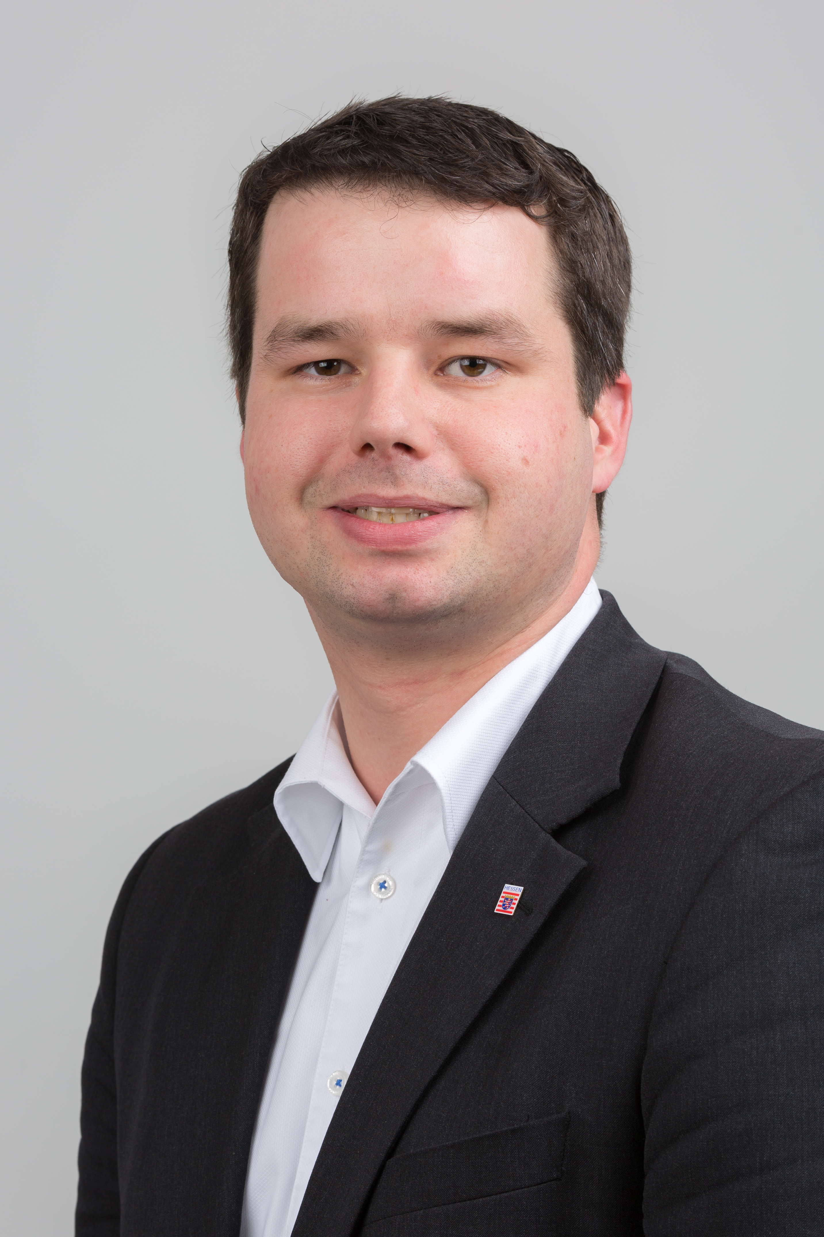 Andreas Hofmeister, member of the Landtag of Hesse